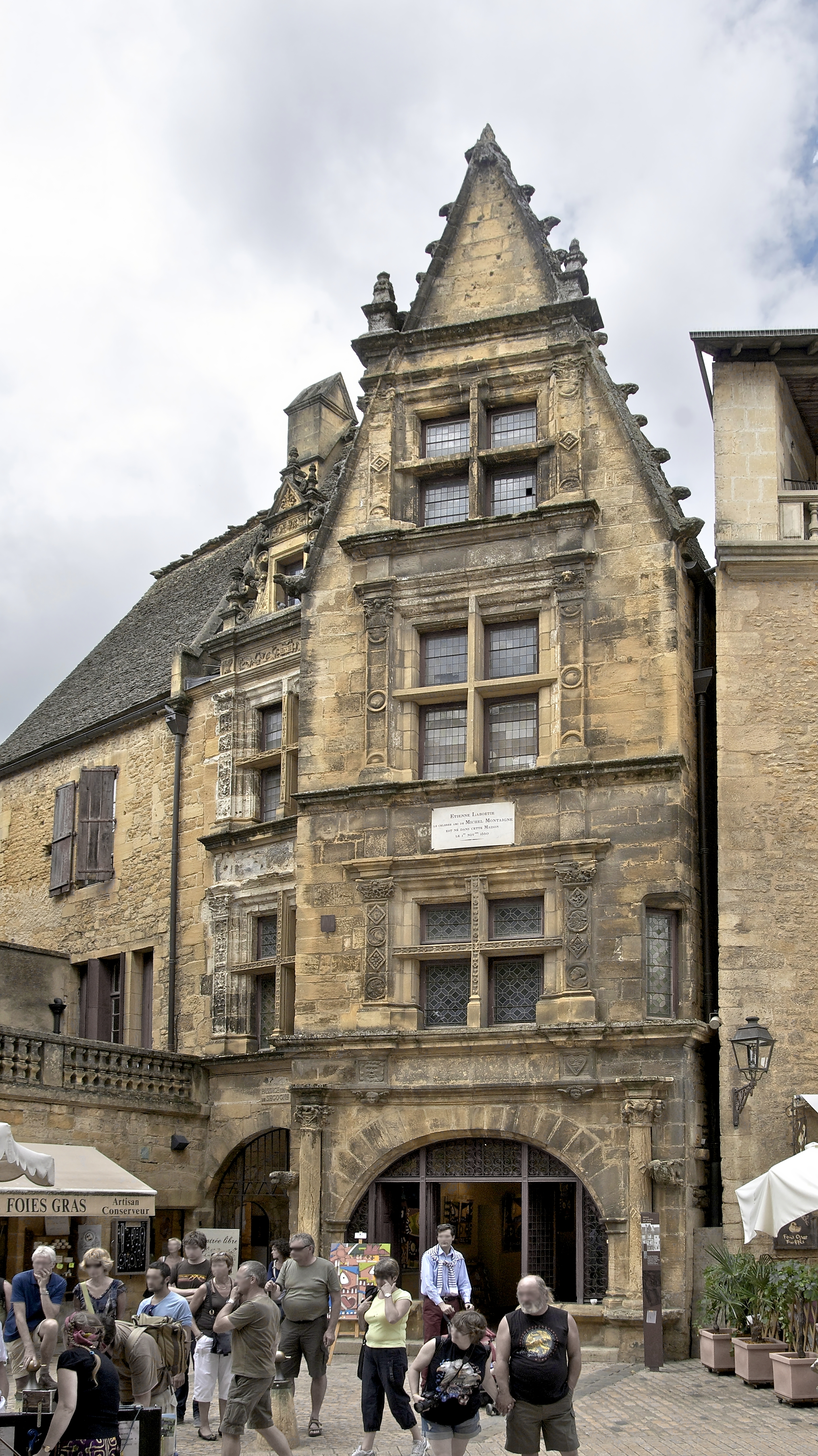 Bithplace of Étienne de La Boétie in Sarlat, Dordogne, France.